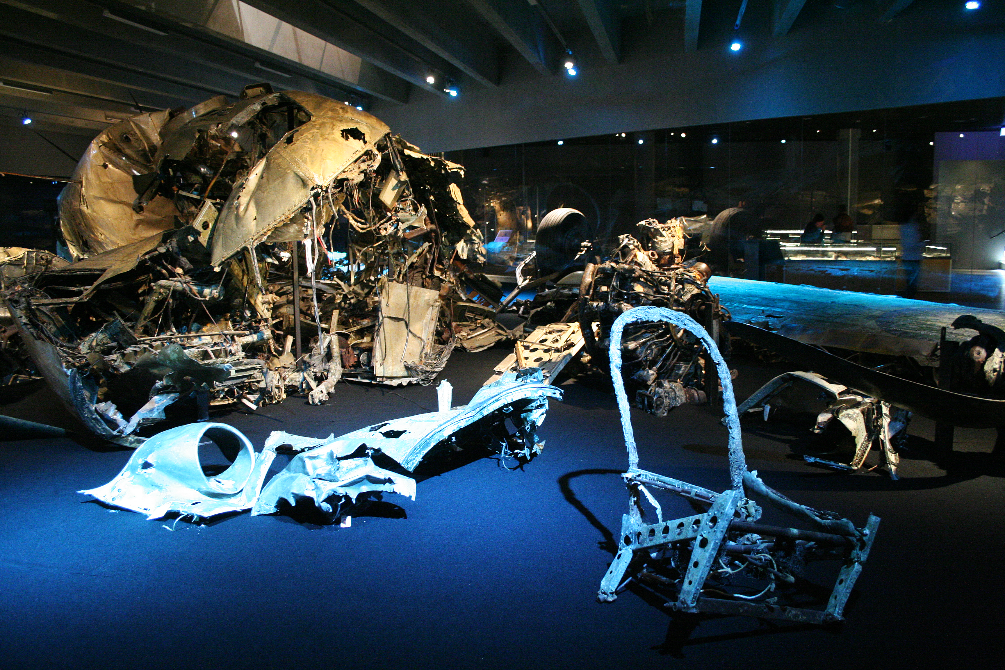 Underneath the cold war hall is a further display hall containing the wreck of this C-47 Dakota, msn 9001. Originally '42-5694' and later 'SE-APZ', it then became '79001' with the Swedish AF. On 13th June 1952, while on an ELINT mission, it was shot down by Soviet MiG-15 fighters. The surprisingly complete wreck was located in 2003 and recovered in 2004. It went on display in 2010. It is extremely well presented. This view is nose on to the fuselage. Flyvapenmuseum, Malmen, Sweden. 04-06-2012